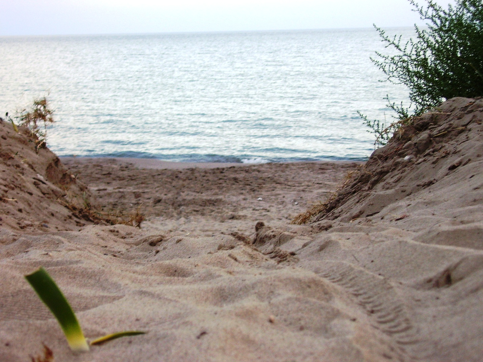 A view of the sea, Metaponto Lido.